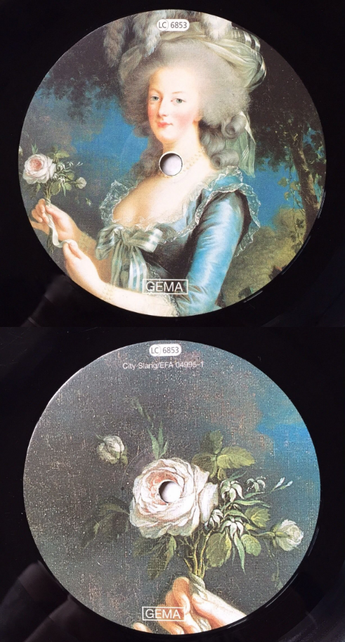 My Body, the Hand Grenade vinyl centerpieces extracted from Marie-Antoinette dit « à la Rose (1783)